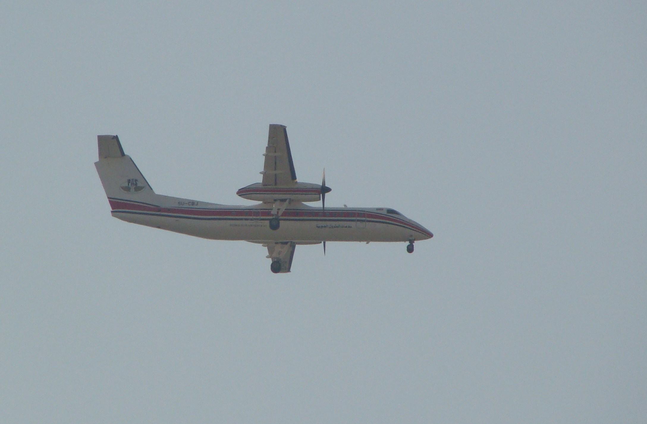 PAS - De Havilland Canada DHC-8-315Q Dash 8